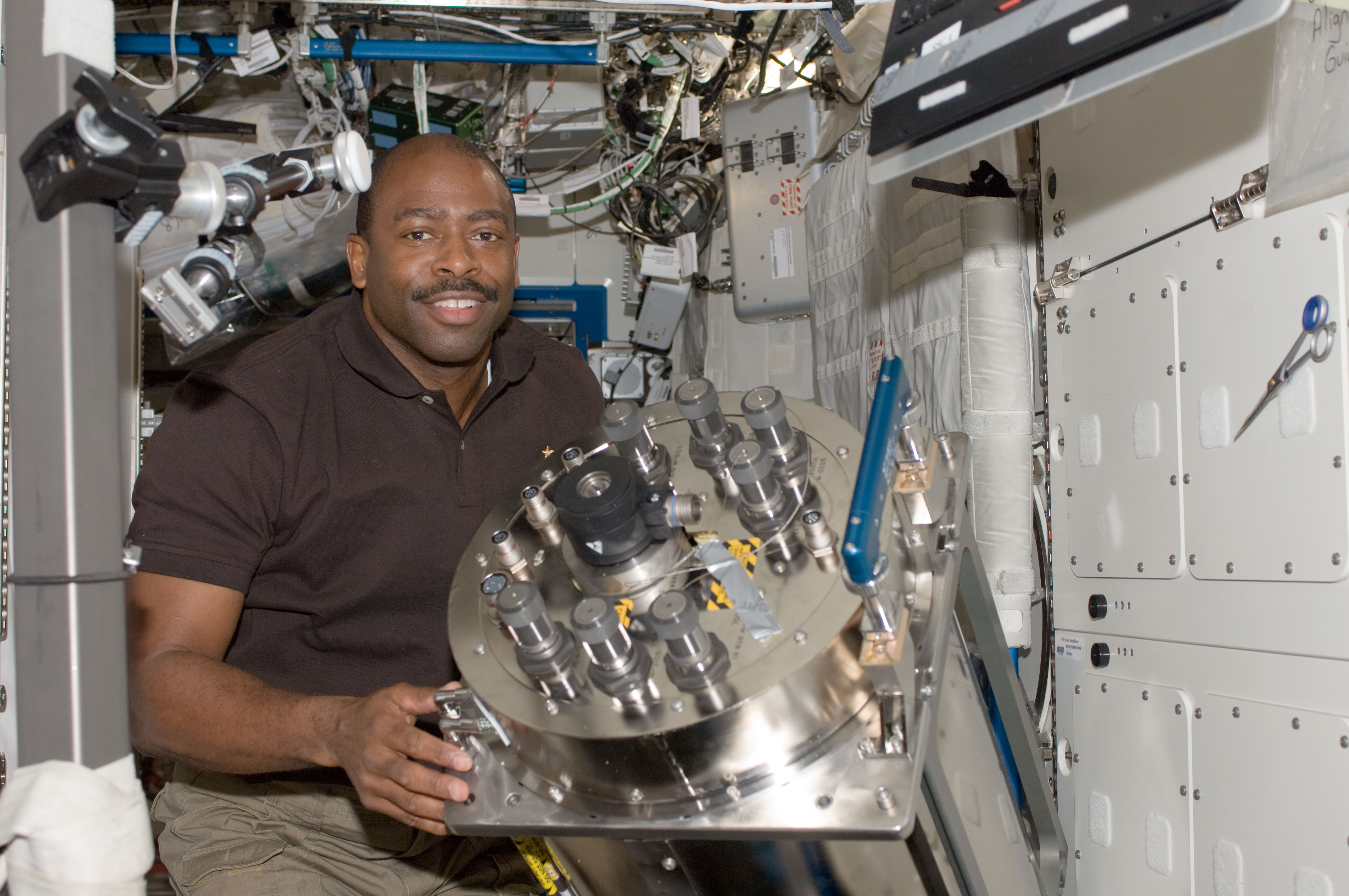 NASA astronaut Leland Melvin, STS-129 mission specialist, holds the failed Urine Processor Assembly / Distillation Assembly (UPA DA) in the Destiny laboratory of the International Space Station while space shuttle Atlantis remains docked with the station. Melvin and European Space Agency astronaut Frank De Winne (out of frame), Expedition 21 commander, removed and packed the UPA DA, then transferred it from the Water Recovery System 2 (WRS-2) rack to Atlantis for stowage on the middeck.